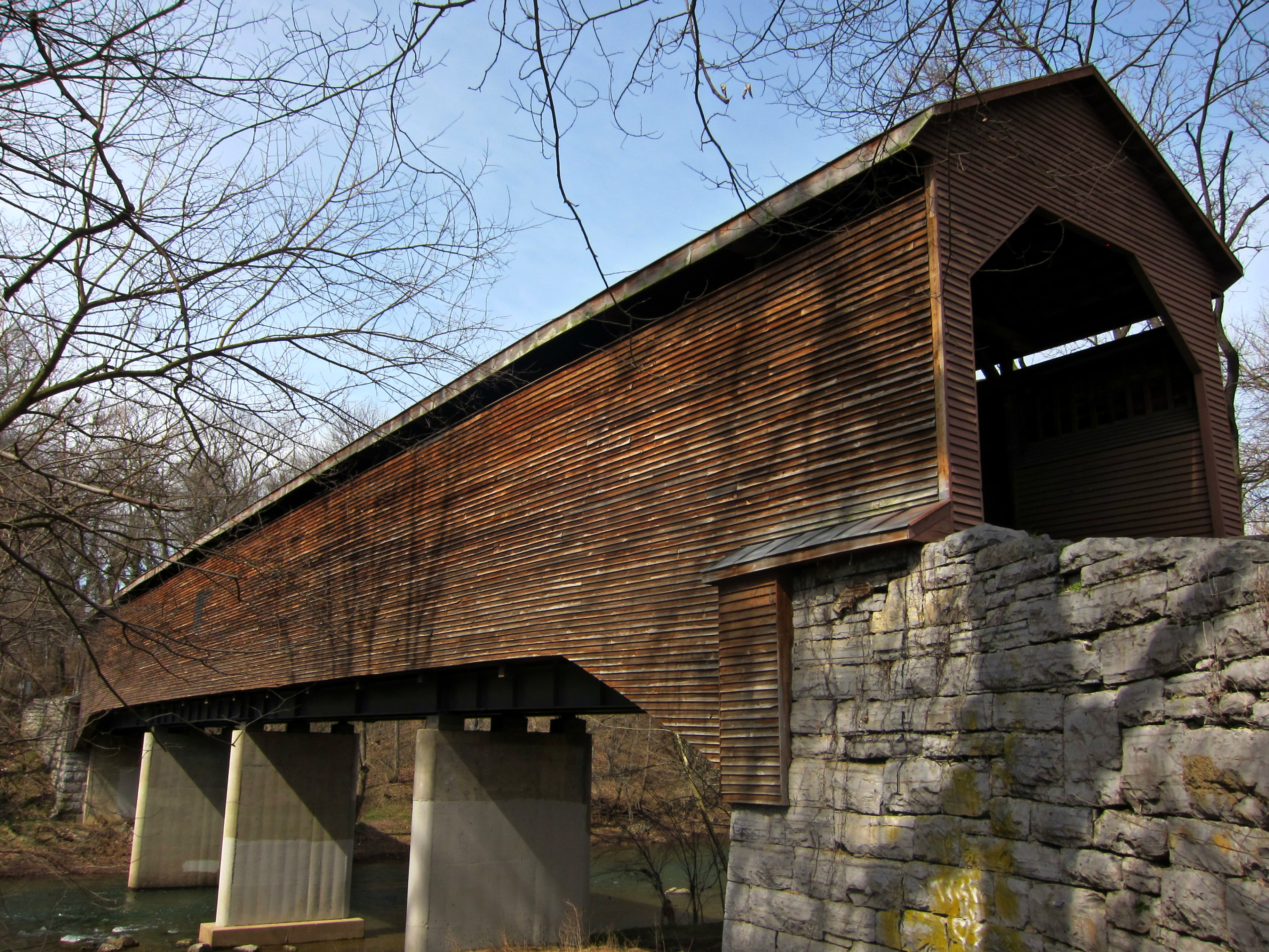 Meems Bottom Covered Bridge is a historic covered bridge in Shenandoah County, Virginia, United States.